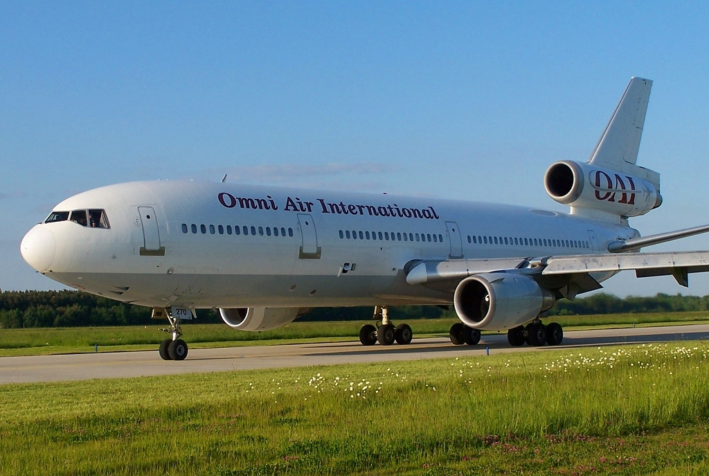 Omni Air International DC-10 (Reg. N270AX) at Hanover Airport, Germany, operating for the Royal Air Force.